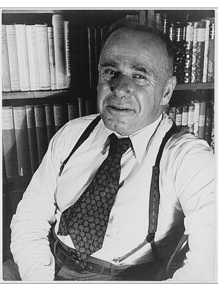 Journalist Hutchins Hapgood (1869-1944) Photograph from 1933